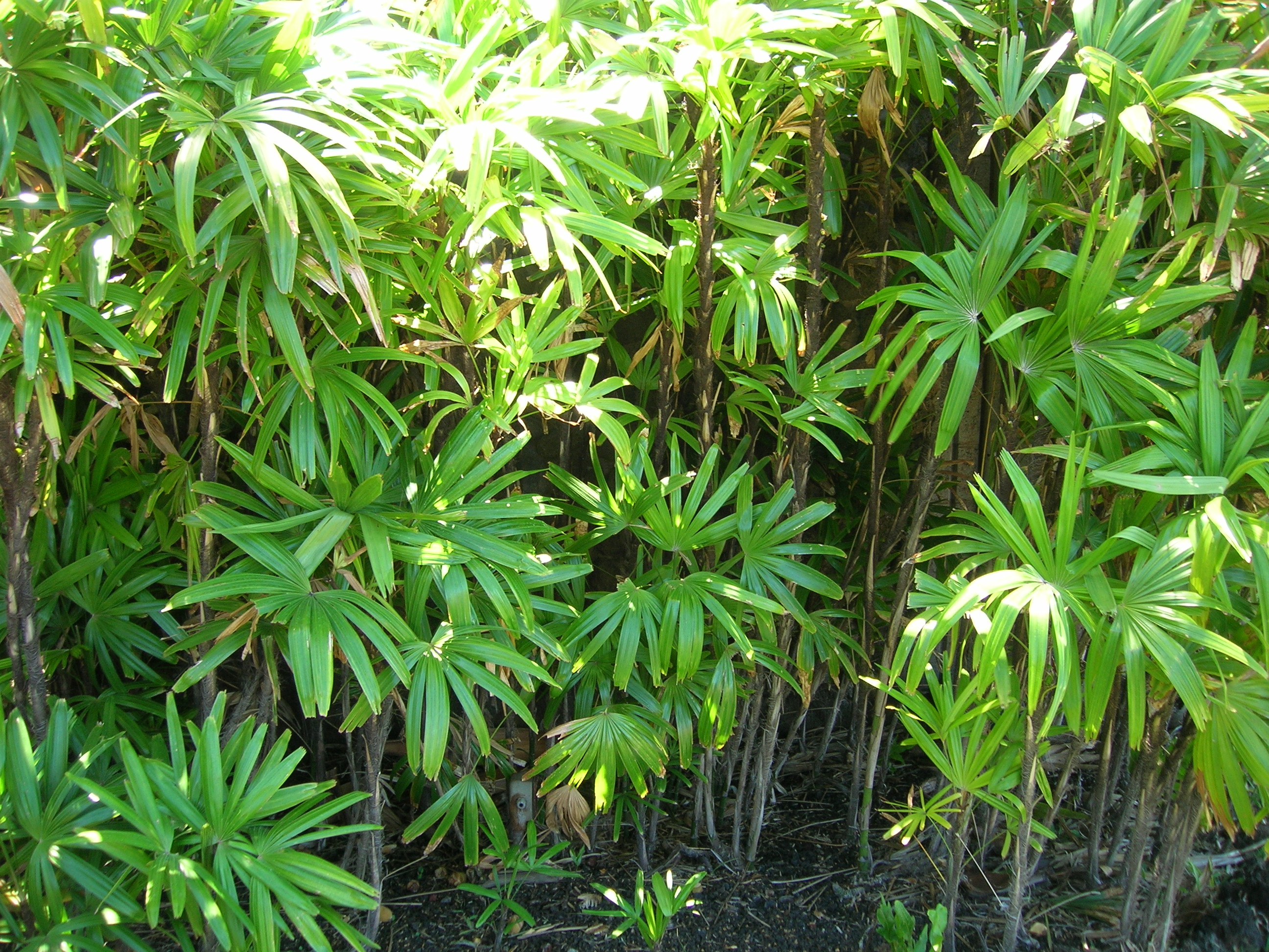 Rhapis excelsa (habit). Location: Maui, Kahului Airport